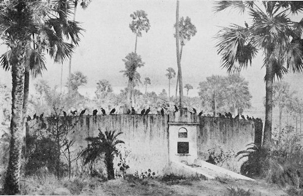 Parsee Tower of Silence in Bombay, India